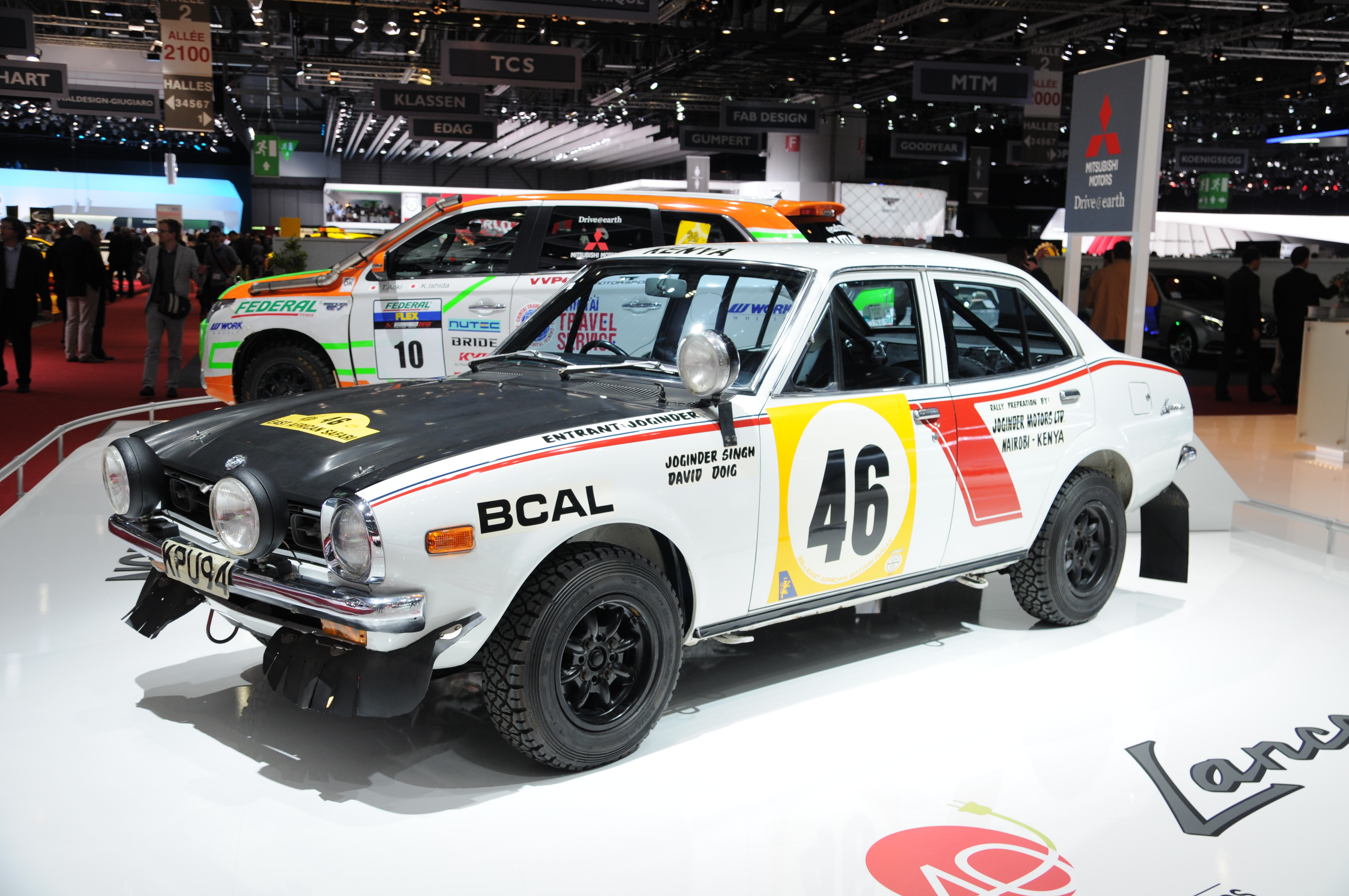 Geneva Motor Show 2014 (photo taken on the first press day)